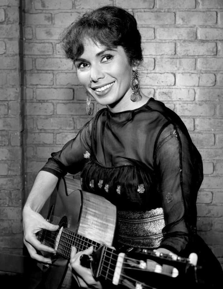 Publicity photo of Margarita Cordova (1961)